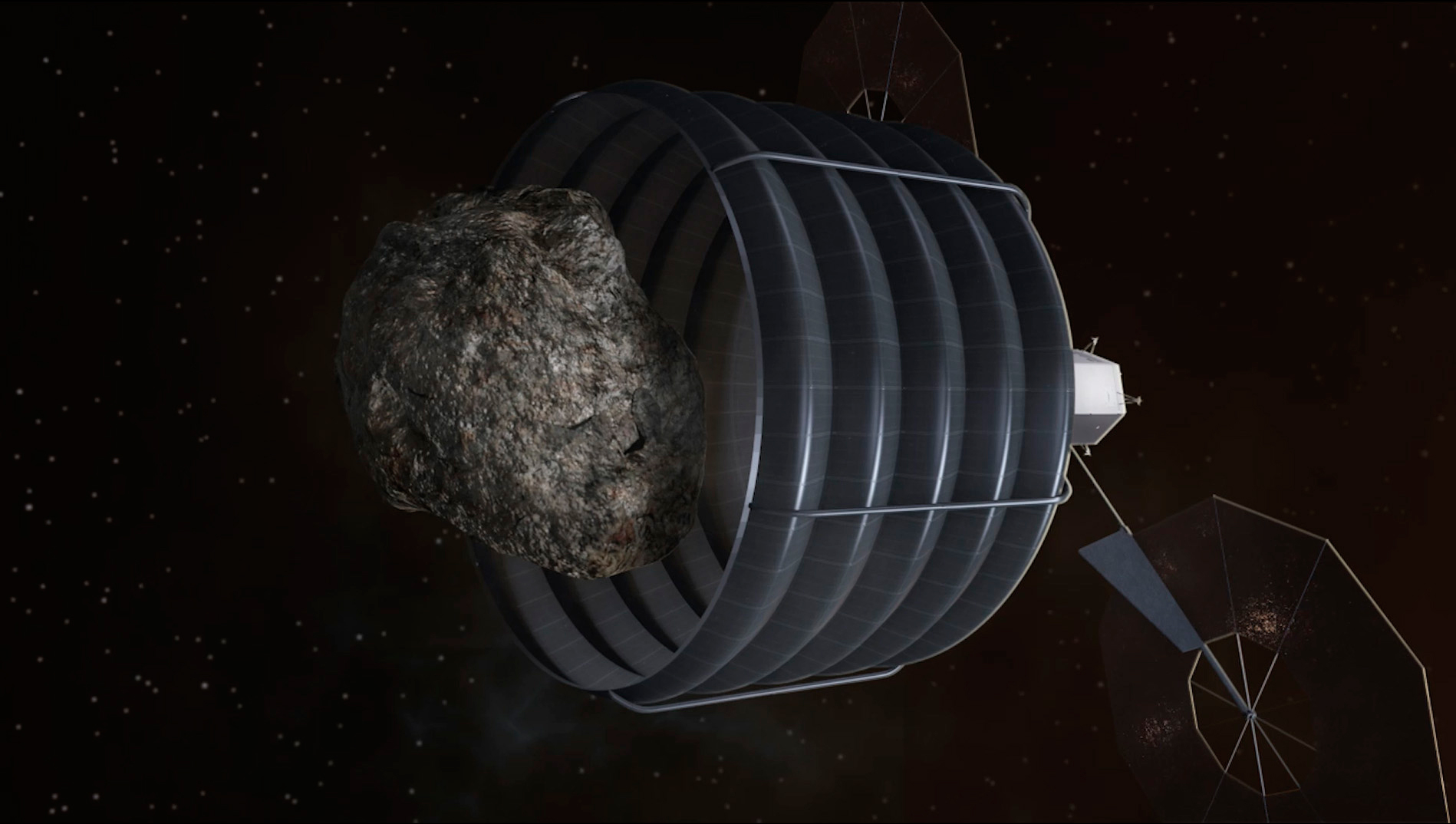 NASA's FY2014 budget proposal includes a plan to robotically capture a small near-Earth asteroid and redirect it safely to the Earth-Moon system, where astronauts can visit and explore it.